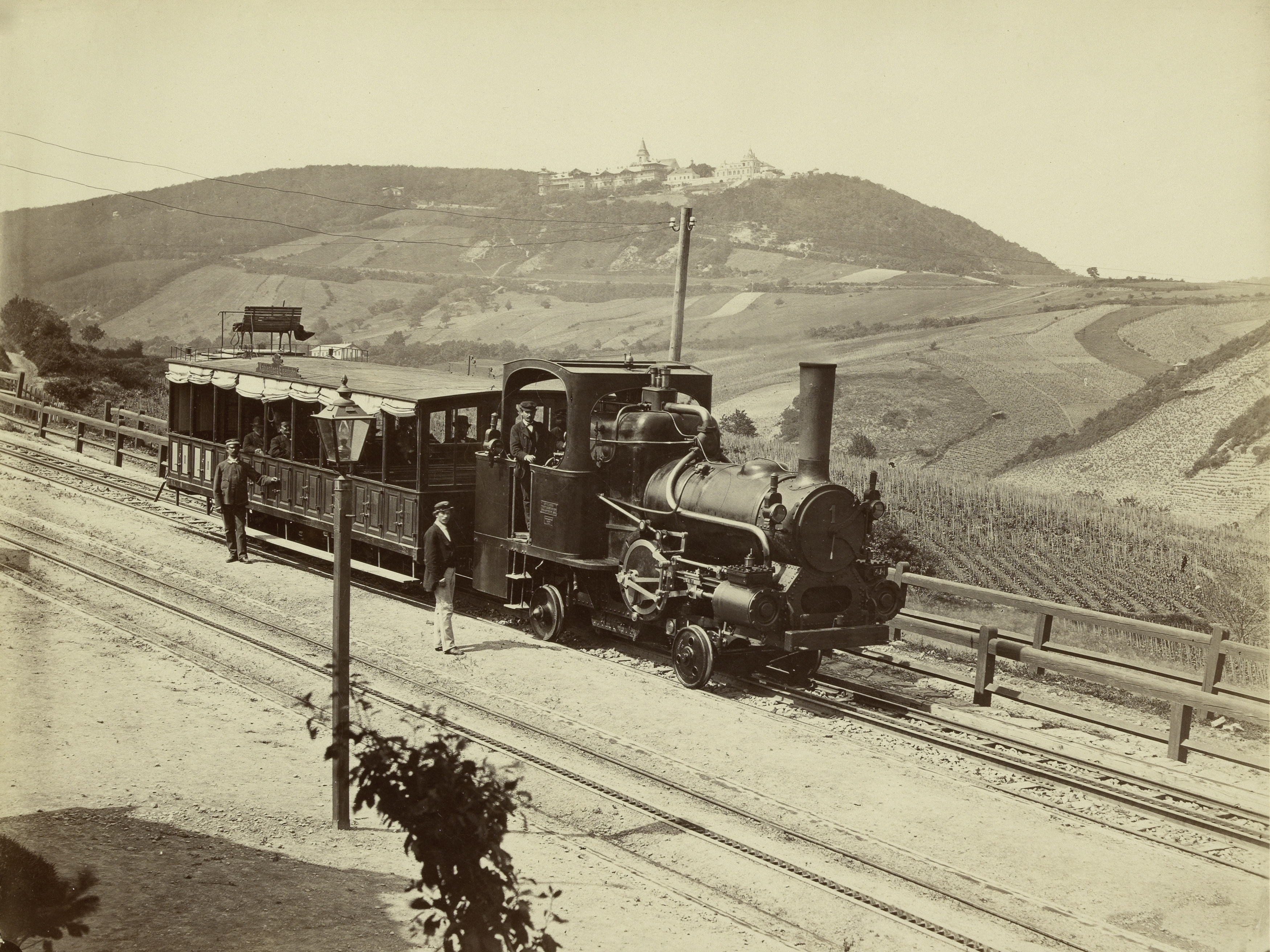 Kahlenbergbahn cog railway in Vienna, Grinzing station